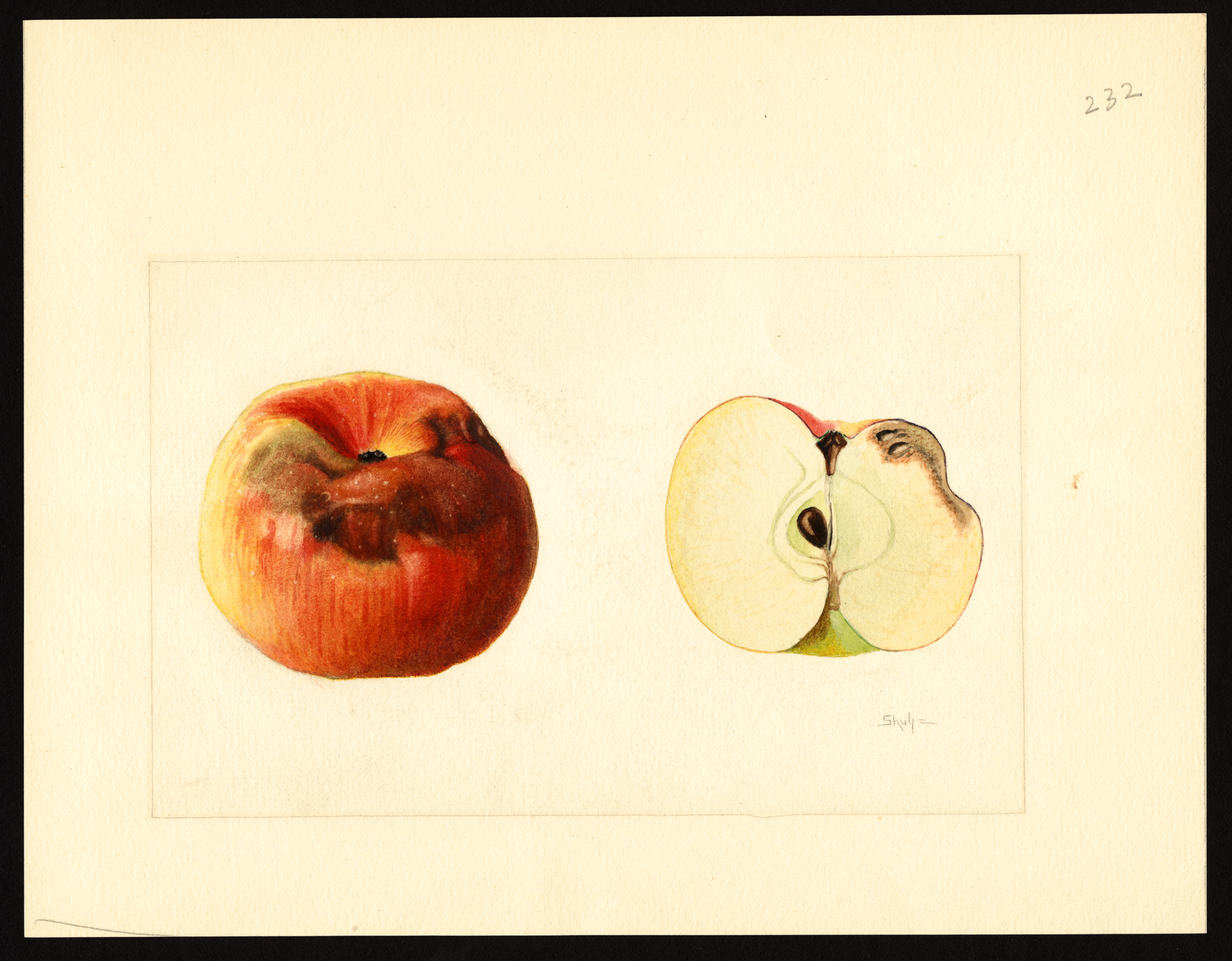 Image of the York variety of apples (scientific name: Malus domestica), with this specimen originating in Floradale, Adams County, Pennsylvania, United States. Source: U.S. Department of Agriculture Pomological Watercolor Collection. Rare and Special Collections, National Agricultural Library, Beltsville, MD 20705.